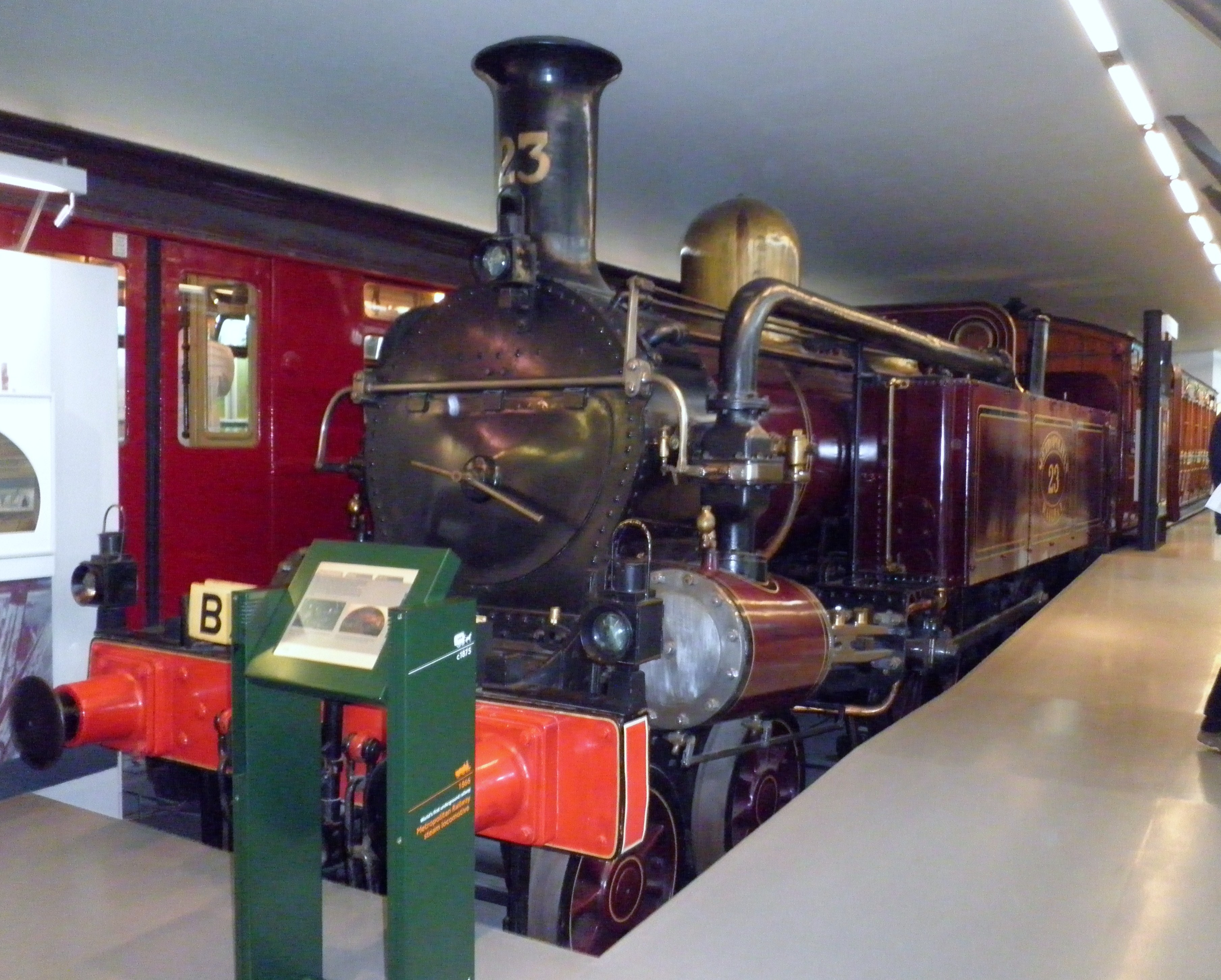 Metropolitan Railway A Class locomotive, London Transport Museum